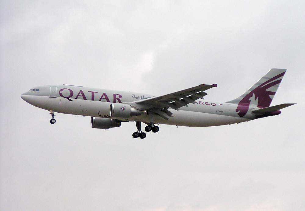 Qatar Air Cargo Airbus A300-600R(F-converted) A7-ABX in Frankfurt (EDDF/FRA)